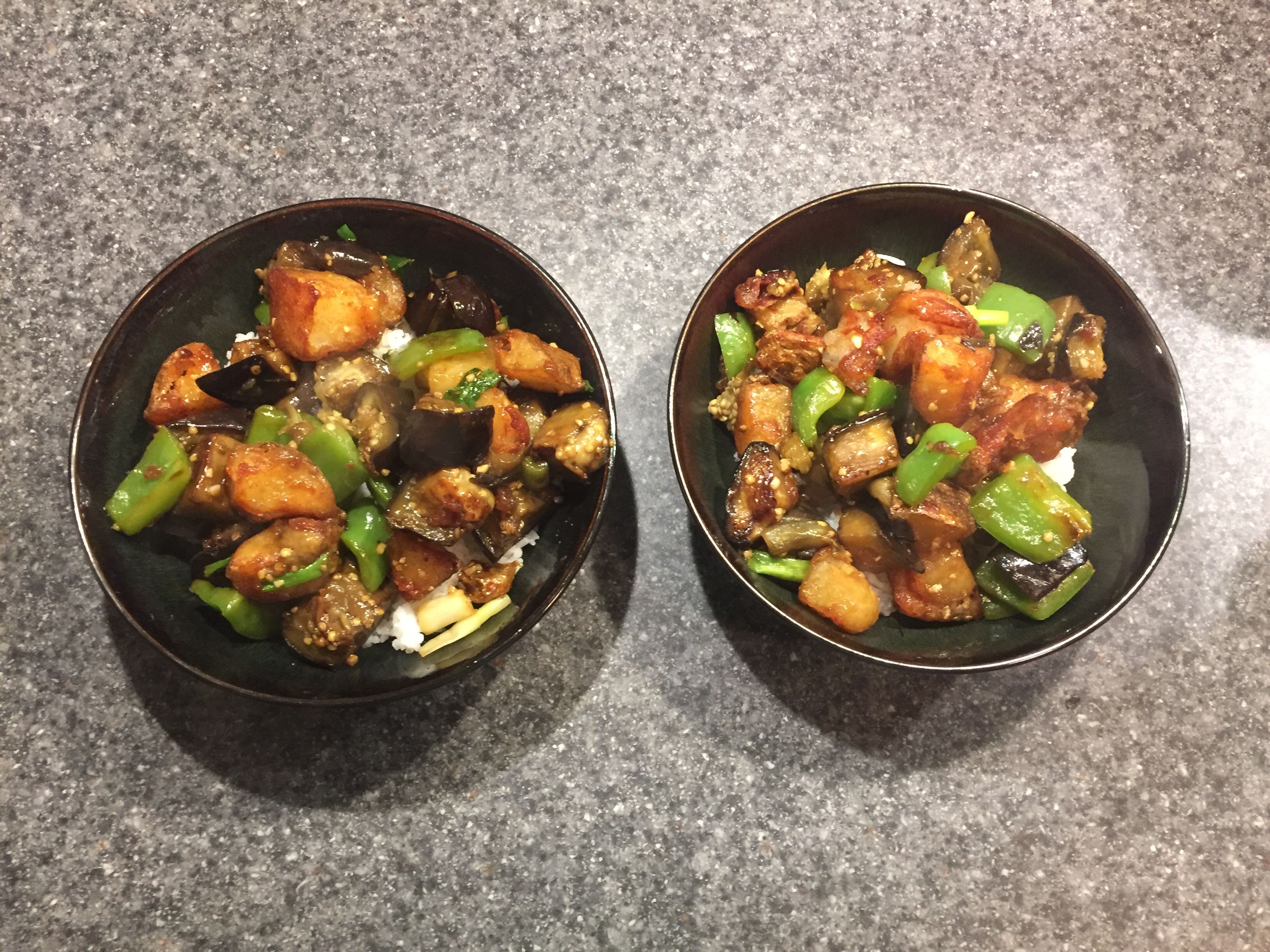 Cooked in Dallas, Texas, USA in 2018.